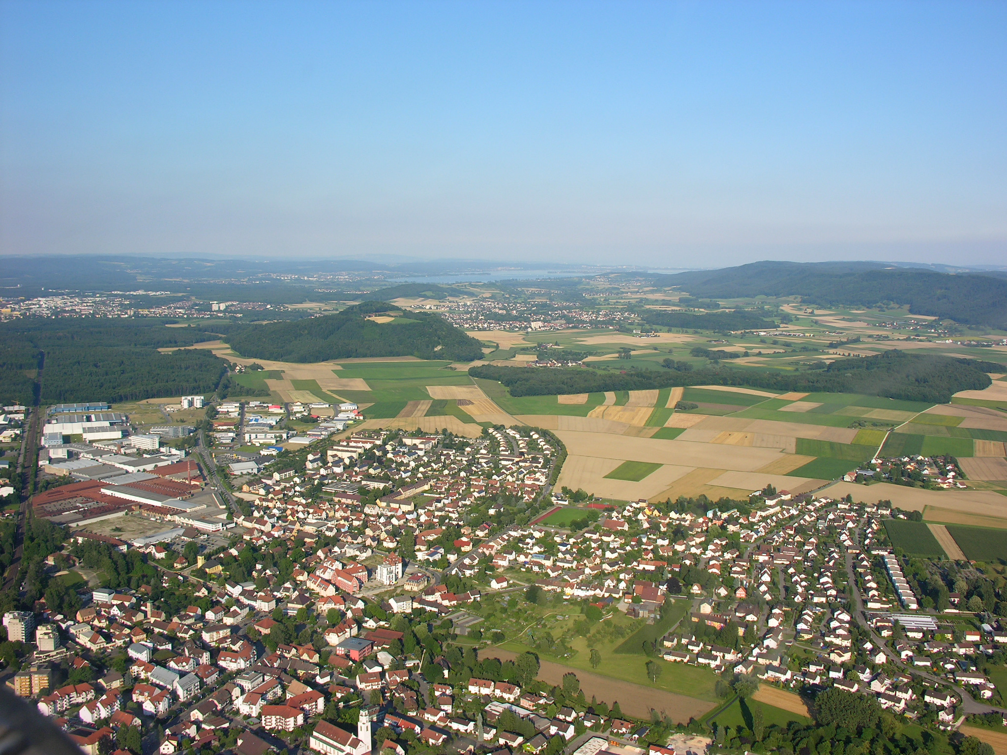 Aerial View of Gottmadingen